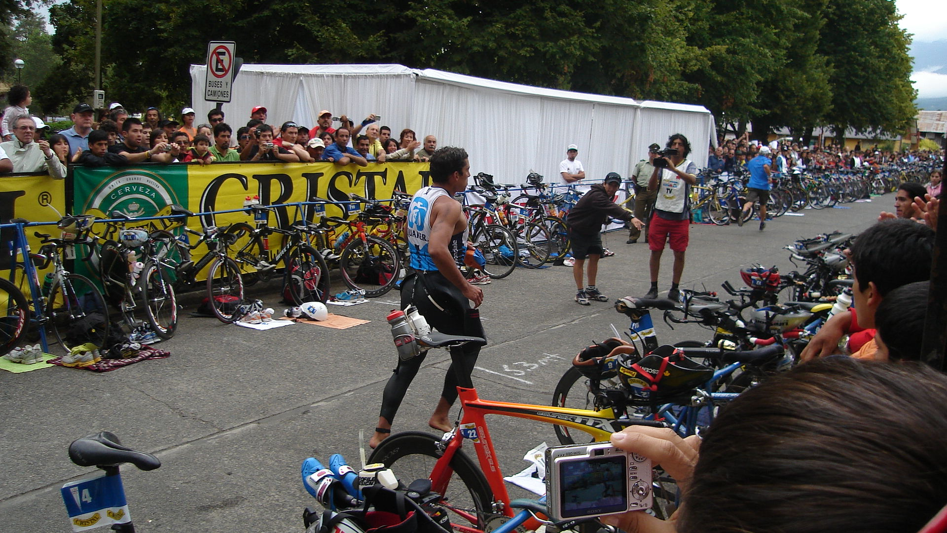 Athlete at Half Ironman Pucón 2007, Pucón (Chile). Taken by Marco Correa.